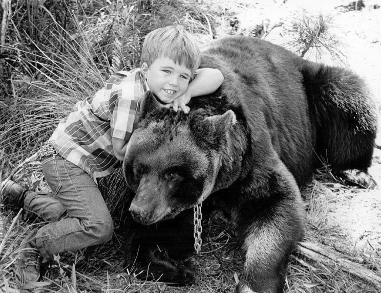 Photo of Clint Howard and Bruno the Bear from the television program Gentle Ben. This is from the series premiere.